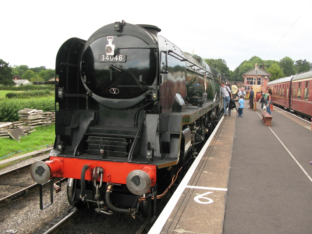 34046 Braunton arrives at Bishops Lydeard with a train from Minehead on the West Somerset Railway. England.